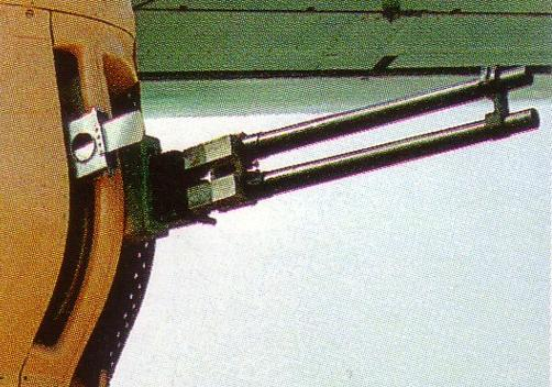 Close up of the original photo uploaded by user:Nemo5576